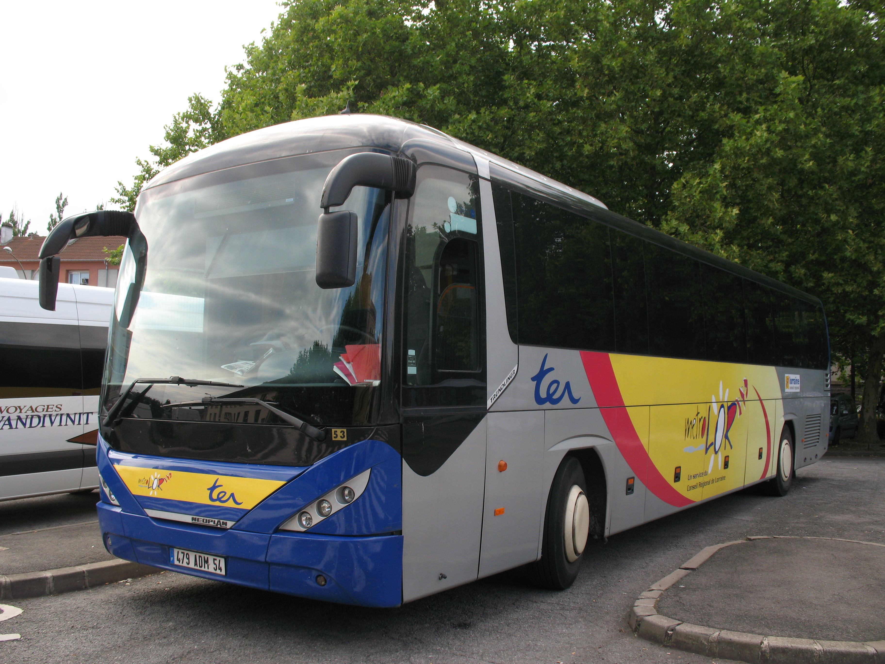 A coach for the regional network of Lorraine at the station of Thionville.